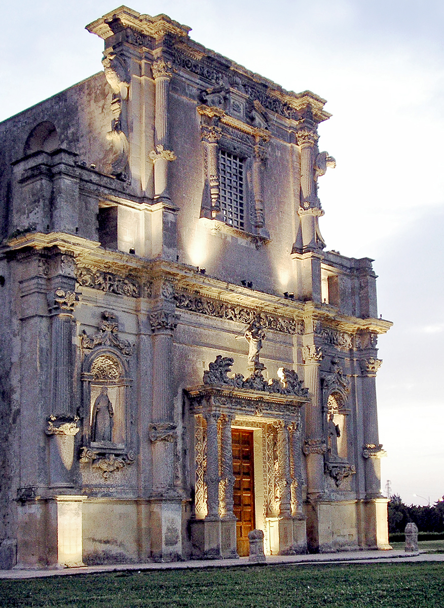 Description: Melpignano (Le) Italy Source: The Doc